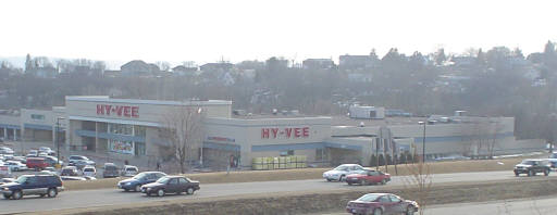 This is a picture of the Hy-Vee #1 on U.S. Highway 20 (Dodge Street). It is the oldest of three HyVee stores in Dubuque and was originally built and operated as a Randall's Foods. This photo was taken in February of 2005. JesseG 00:12, Feb 27, 2005 (UTC)